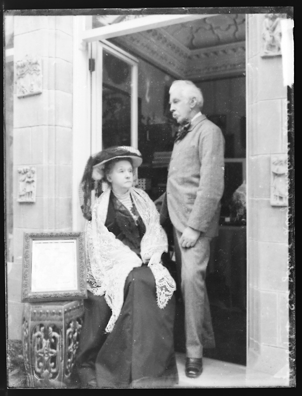 Creator: H. Allison & Co. Photographers Date: 15th September 1906 Original Format: Glass Plate Negative Description: Portrait of Sir John and Lady Constance Leslie of Glaslough, County Monaghan. PRONI Ref: D2886/W/Family/18 Copying and copyright: Please For Copy Orders, contact: For fees and charges